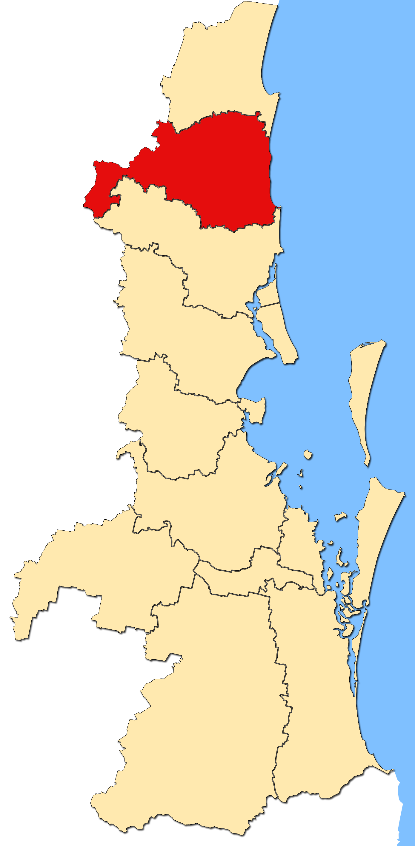 Map of South East Queensland urban local government areas, with Maroochy Shire highlighted. Created by MagpieShooter.